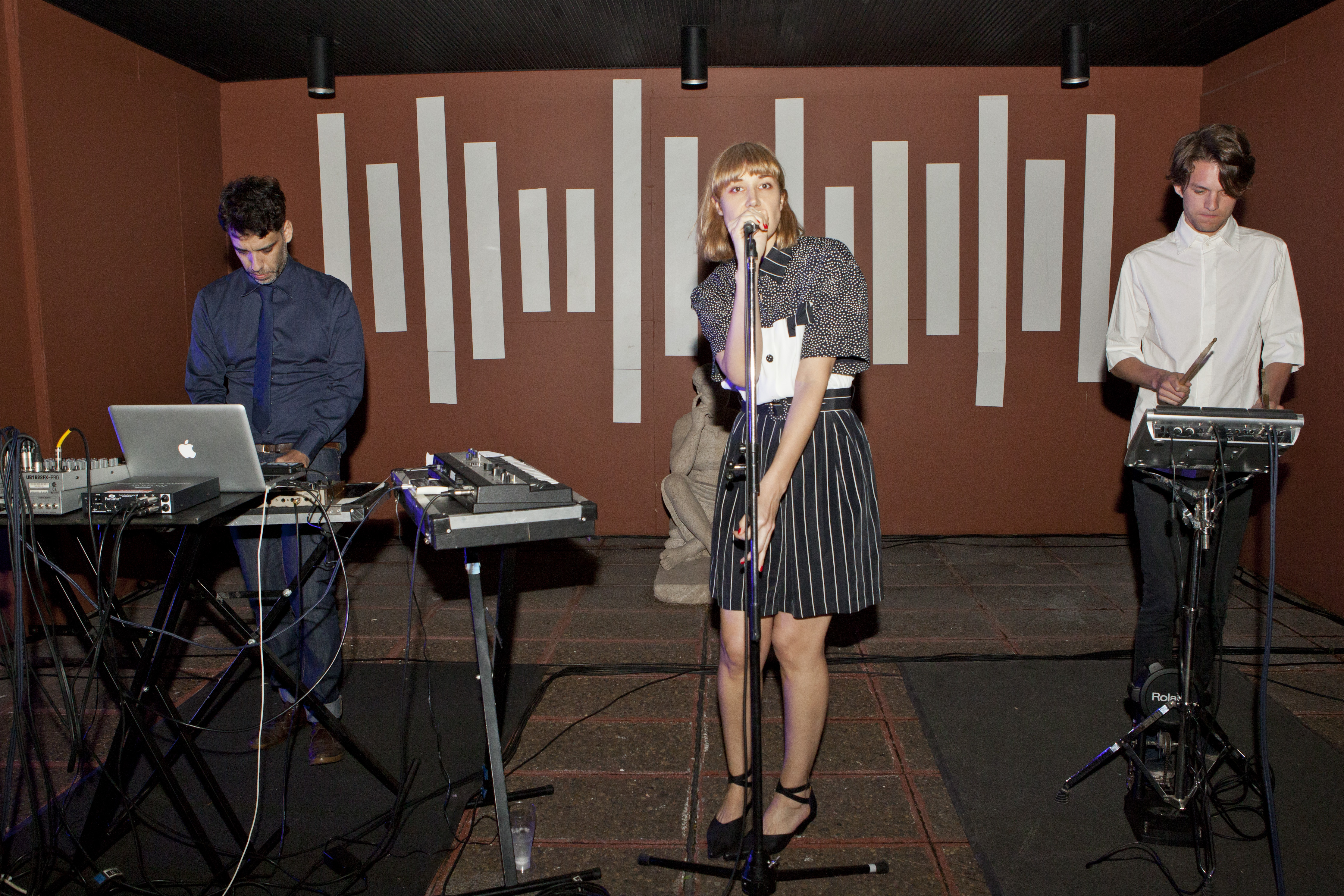 Argentine indietronica group Entre Ríos performing on October 30, 2014, at the Museo Nacional de Bellas Artes in Buenos Aires.